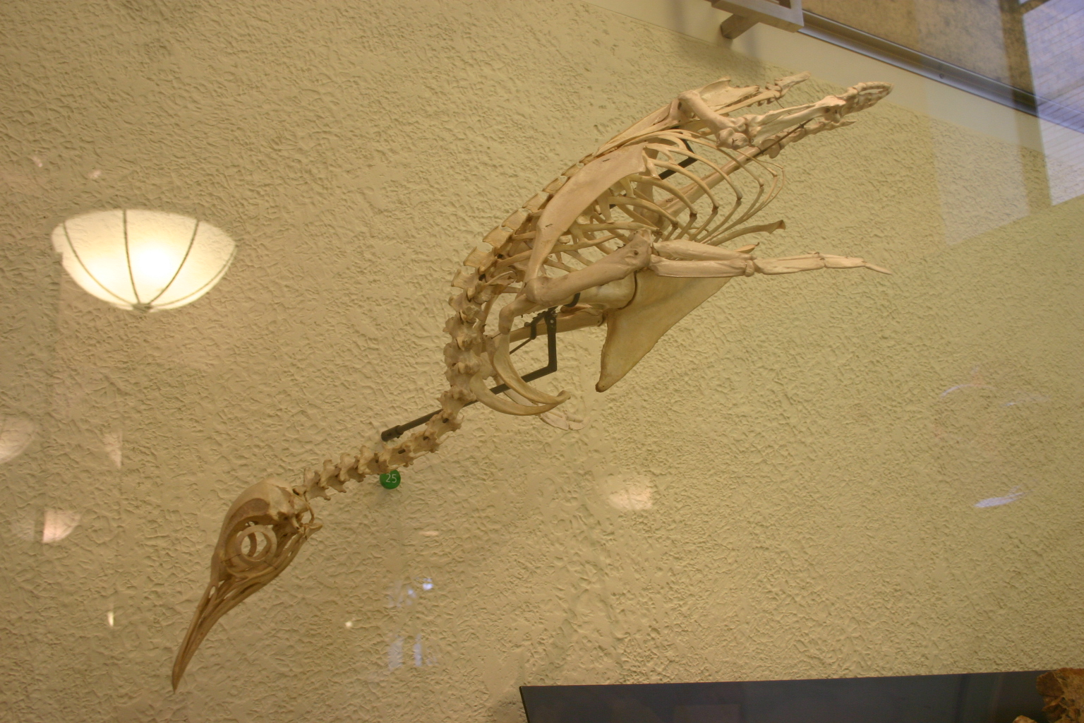 wingless diver